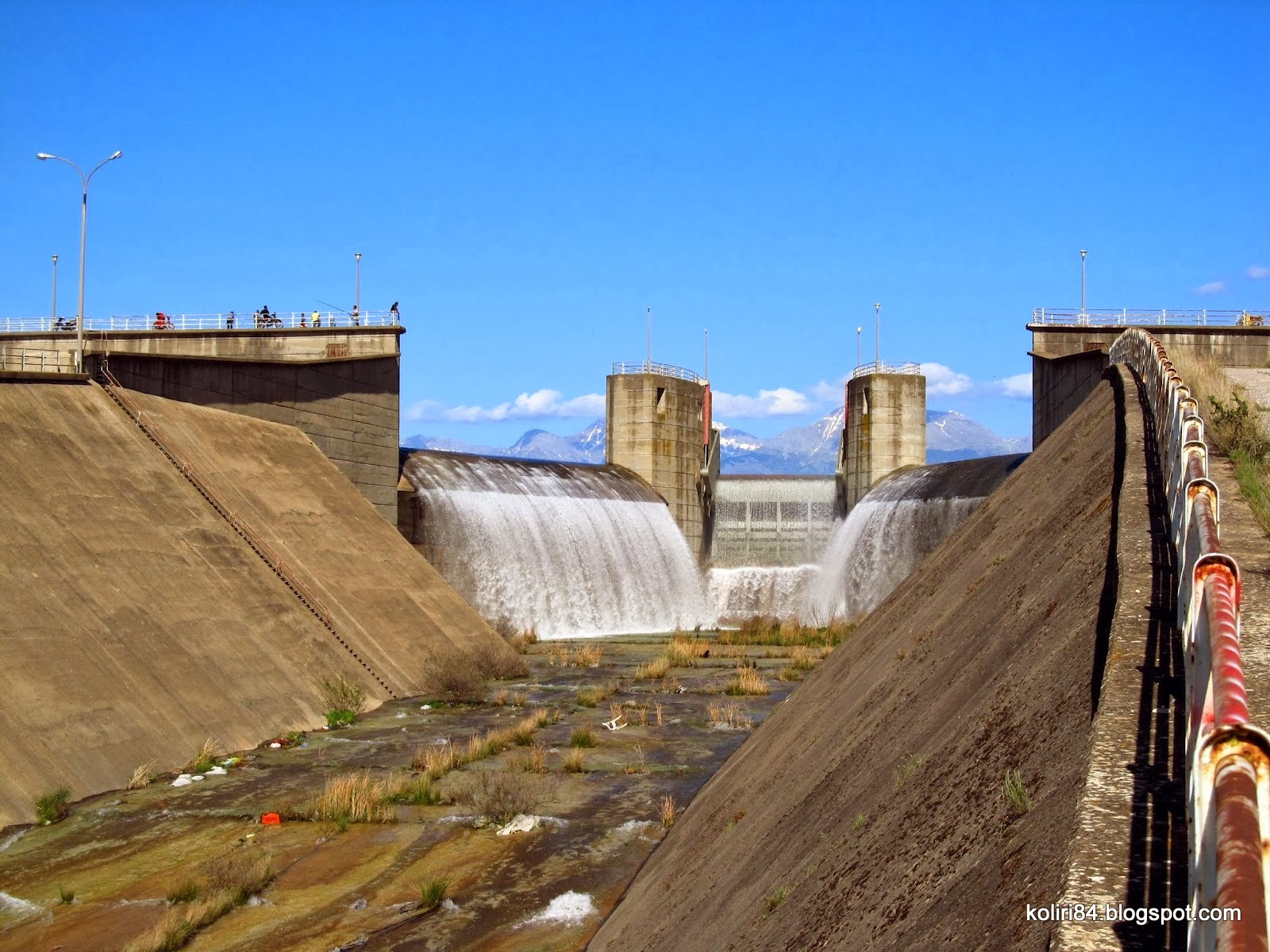 Pineios Dam-Ileia-Greece